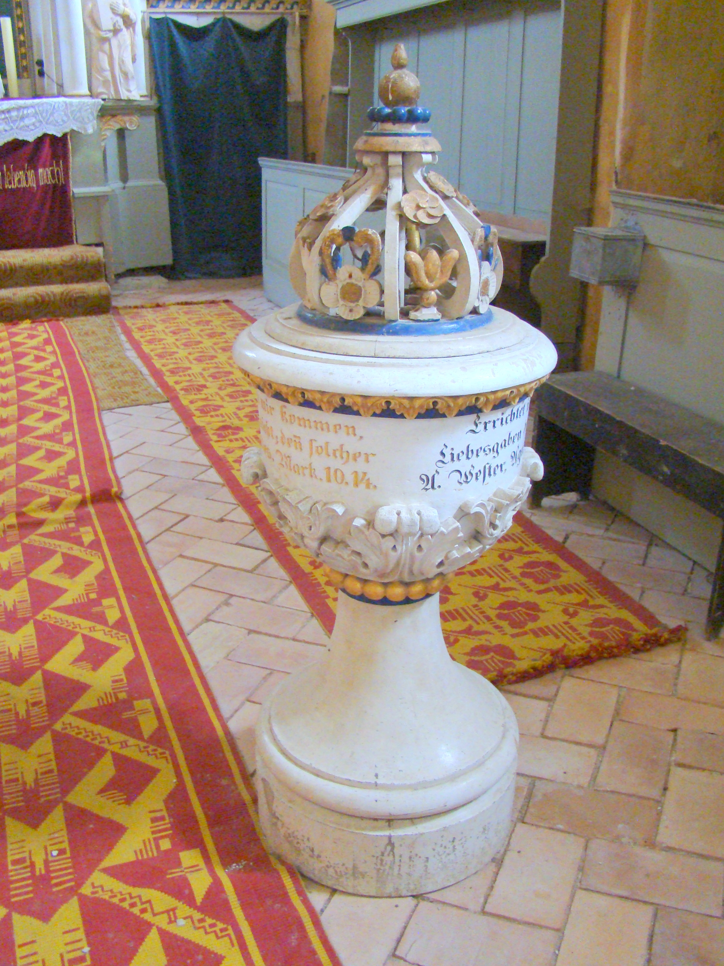 Fortified church in Dacia, Brașov County, Romania